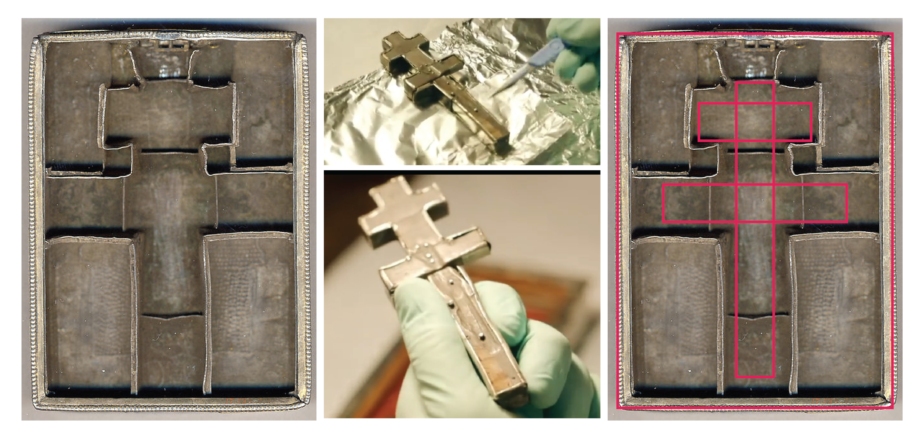 Dimension of Fieschi-Morgan-Staurothèque - early 9th century and possible true cross relic.